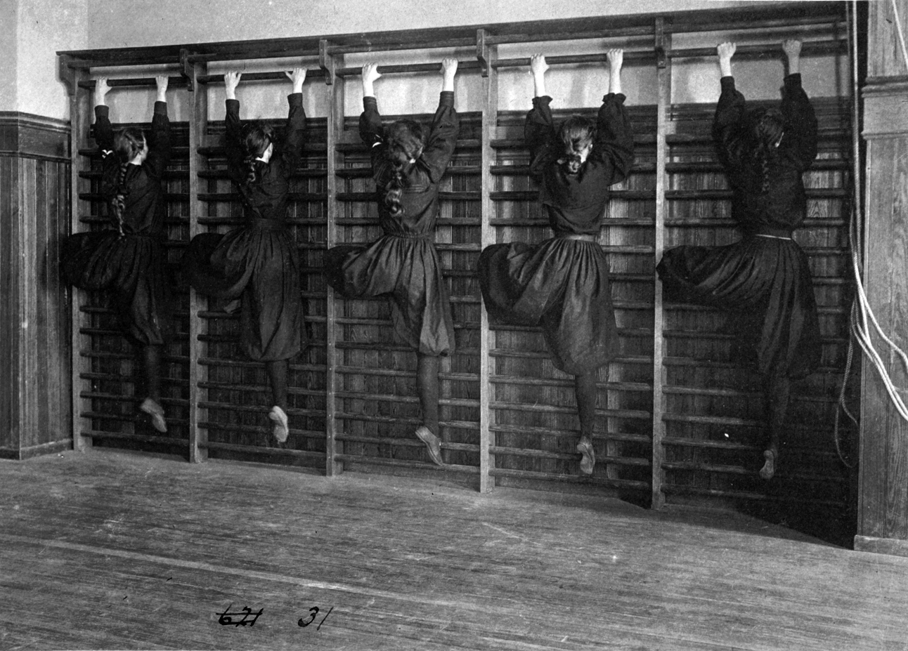 Photo of women wearing bloomers from around 1899.